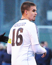 Douglas Bergqvist (cropped version)